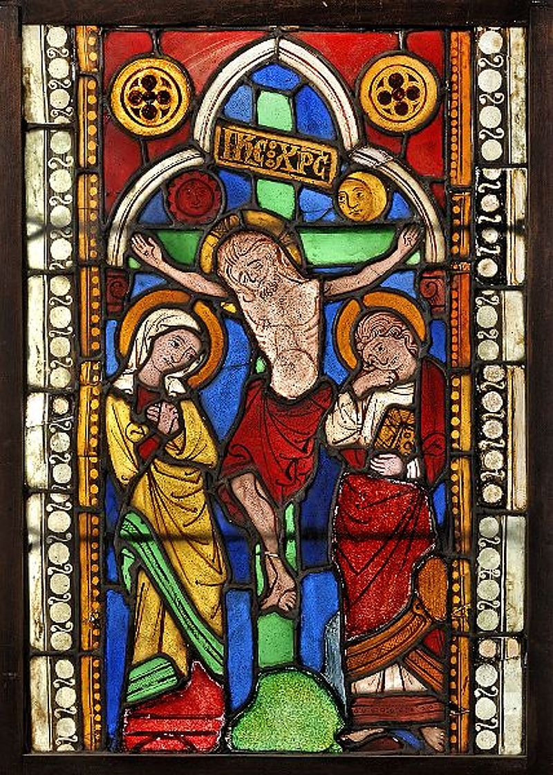 Medieval stained glass panel from Klinte Church, Gotland (Sweden) depicting the crucifixion. Now in the Swedish History Museum.